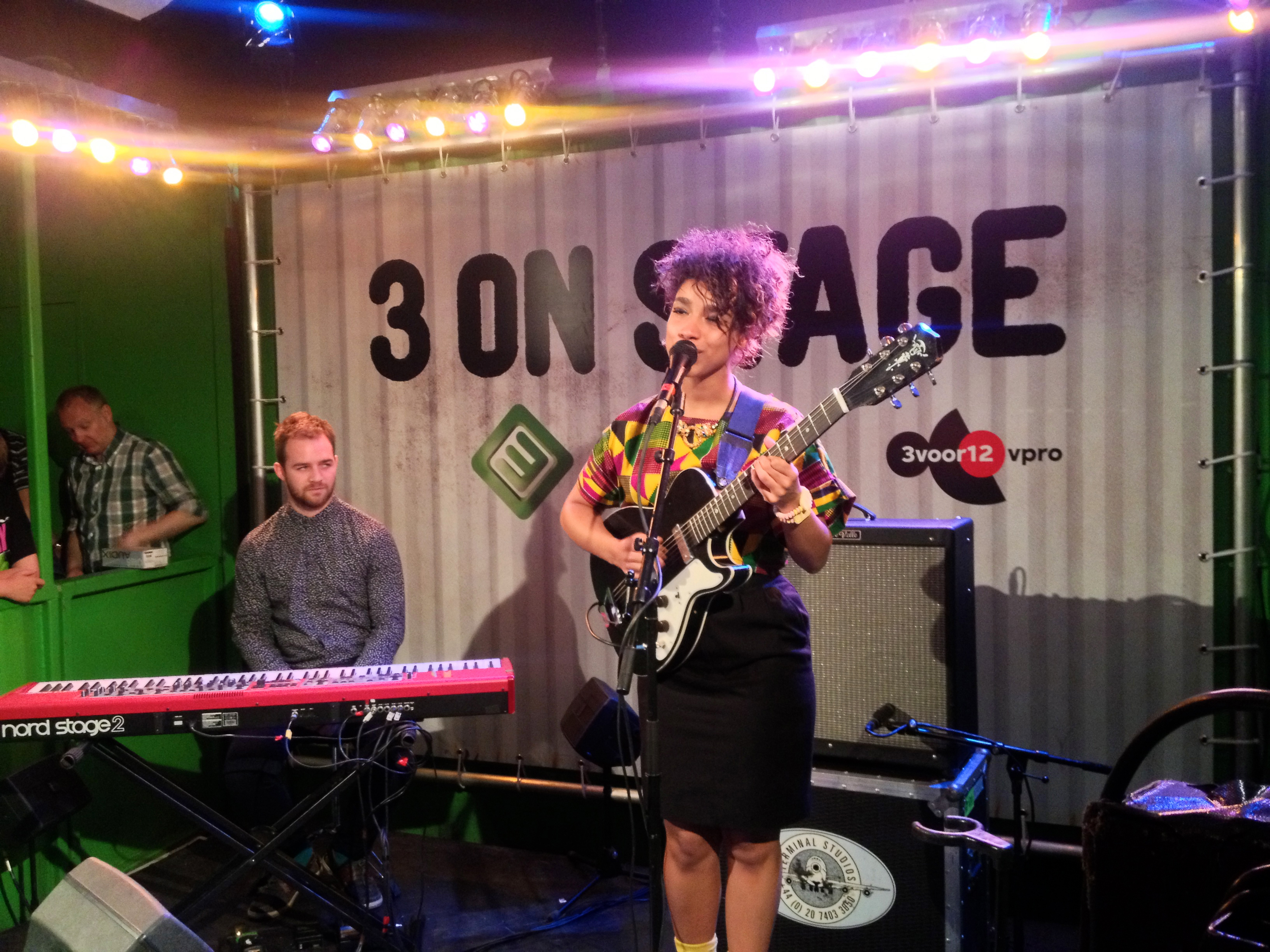 3 On Stage, Netherlands Taken on June 17, 2013